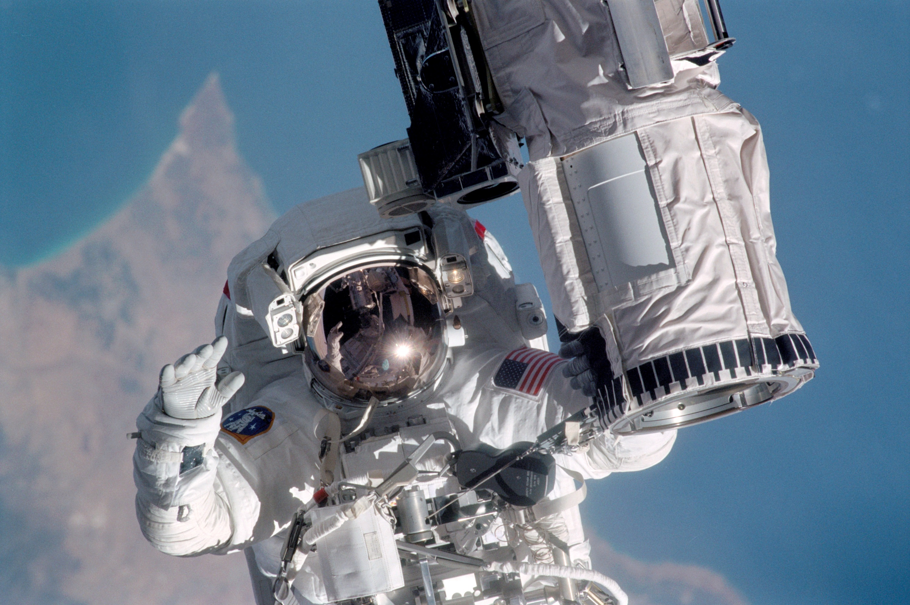 (12-24 July 2001) --- Holding onto the end effector of the Canadarm on the Space Shuttle Atlantis, astronaut Michael L. Gernhardt, STS-104 mission specialist, participates in one of three STS-104 space walks. The extravehicular activity (EVA) was designed to help wrap up the completion of work on the second phase of the International Space Station (ISS). Gernhardt was joined on the extravehicular activity (EVA) by astronaut James F. Reilly. The jutting peninsula in the background is Cape Kormakiti on the north central coast of Cyprus and the water body to the left of the cape is Morphu Bay.